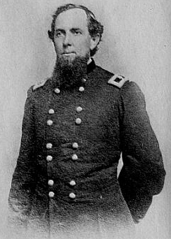 Edward H. Hobson, Union General, from